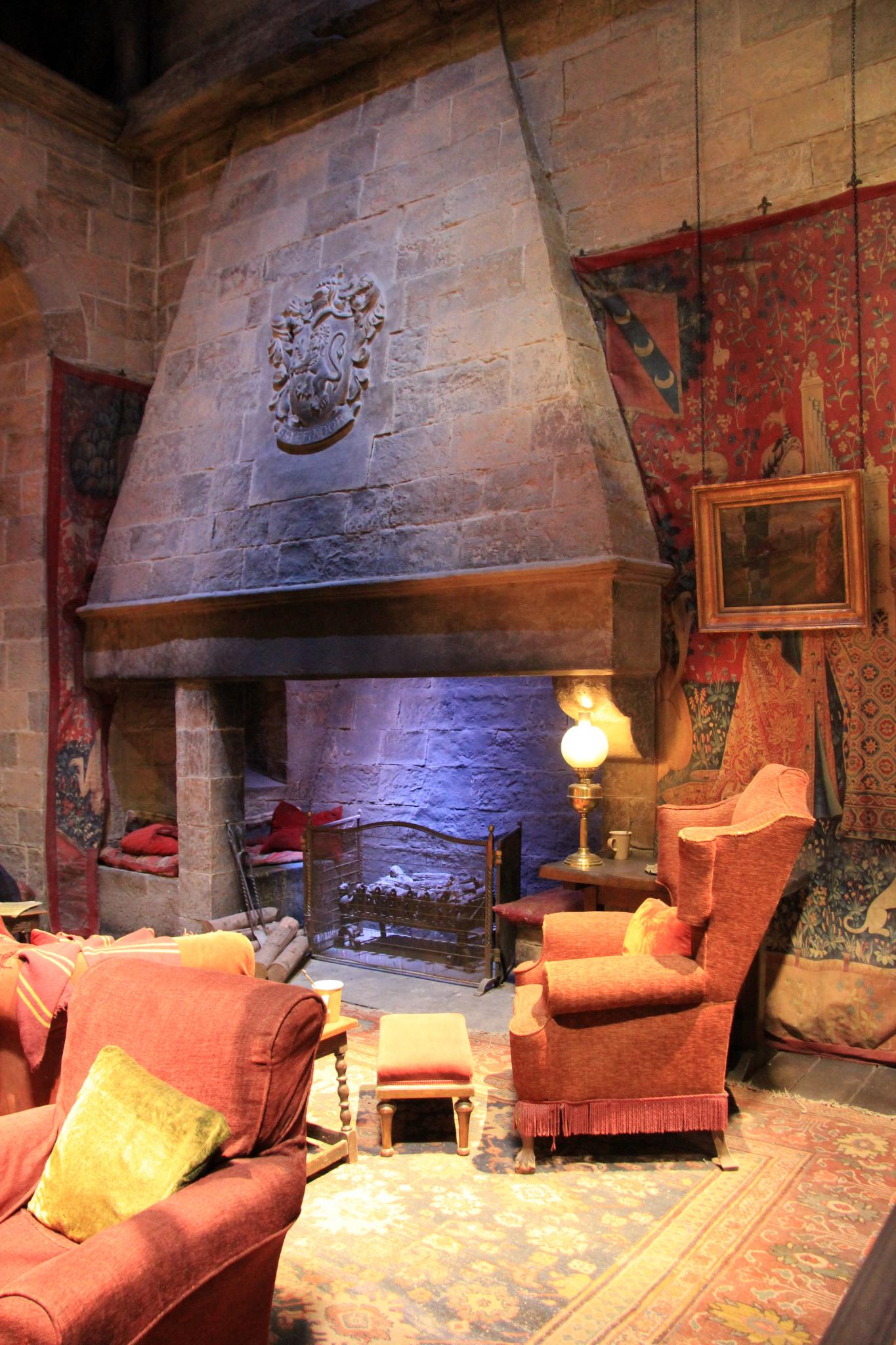 Warner Bros. Studio Tour London: The Making of Harry Potter.